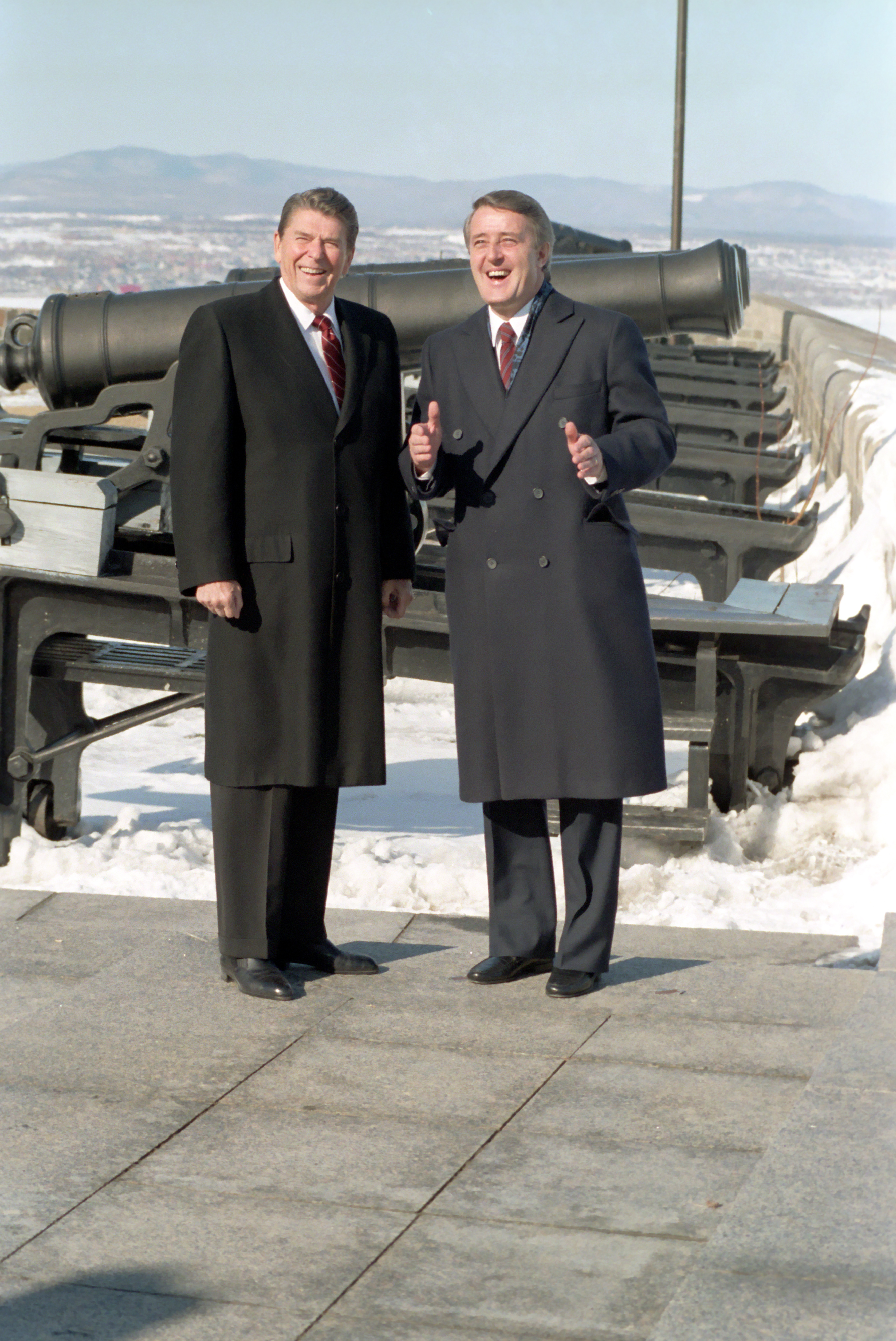 Prime Minister Brian Mulroney of Canada and President Ronald Reagan of the United States visiting The Citadel in Quebec City, Quebec, Canada.